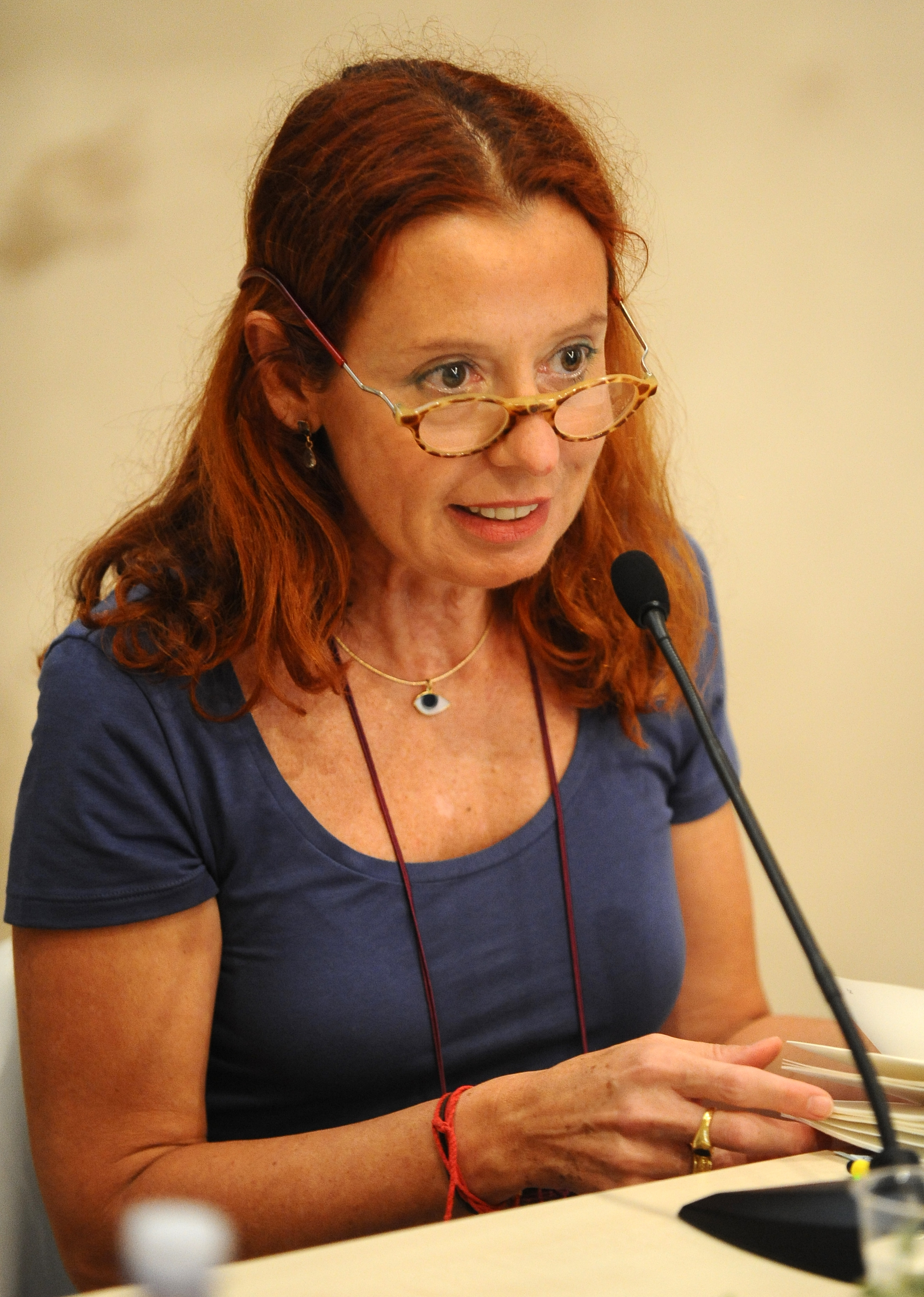 Silvia Ronchey at Festivaletteratura 2012 in Mantua. Church of Santa Maria della Vittoria.